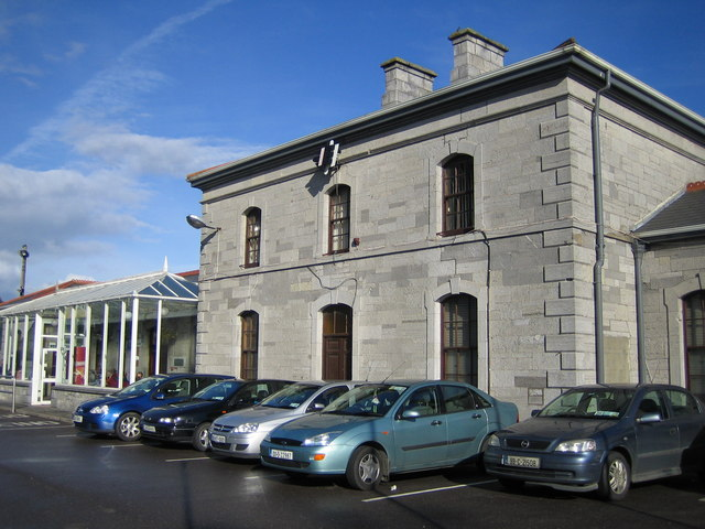 Tralee railway station Tralee is now a terminus but in the past was a through station with lines to Limerick and Fenit. Eight passenger trains a day leave the station (seven on Sunday) all going at least to Mallow with the odd through train to Dublin or Cork.